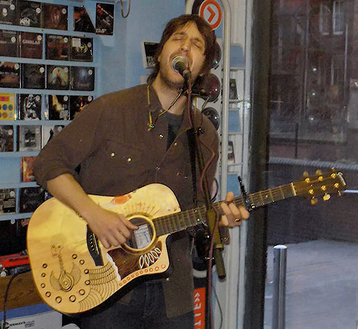 Joseph Arthur performing in Avalanche Records, Glasgow: 17th February 2006